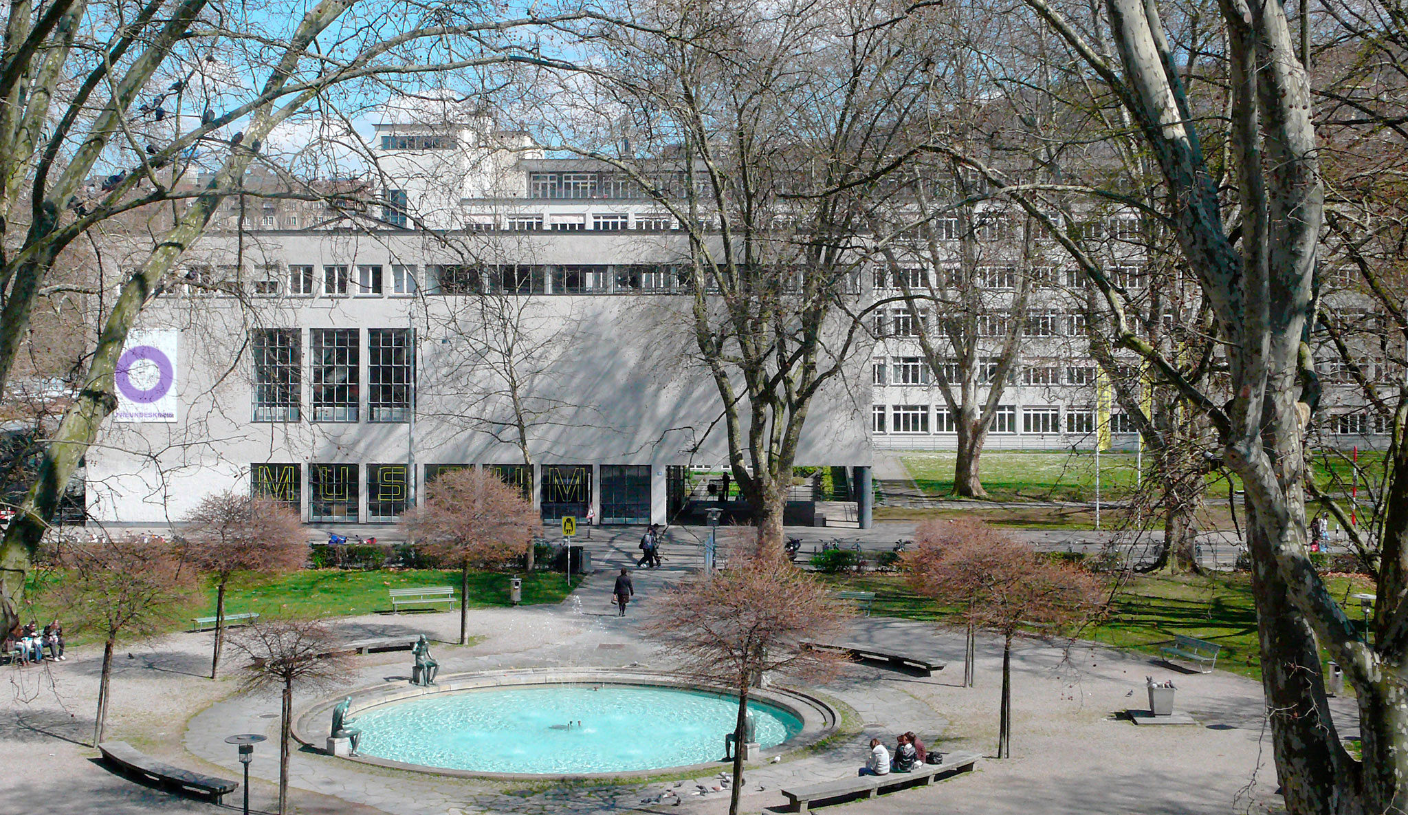 Museum of Design Zürich, seen from a scaffold on Limmatstrasse